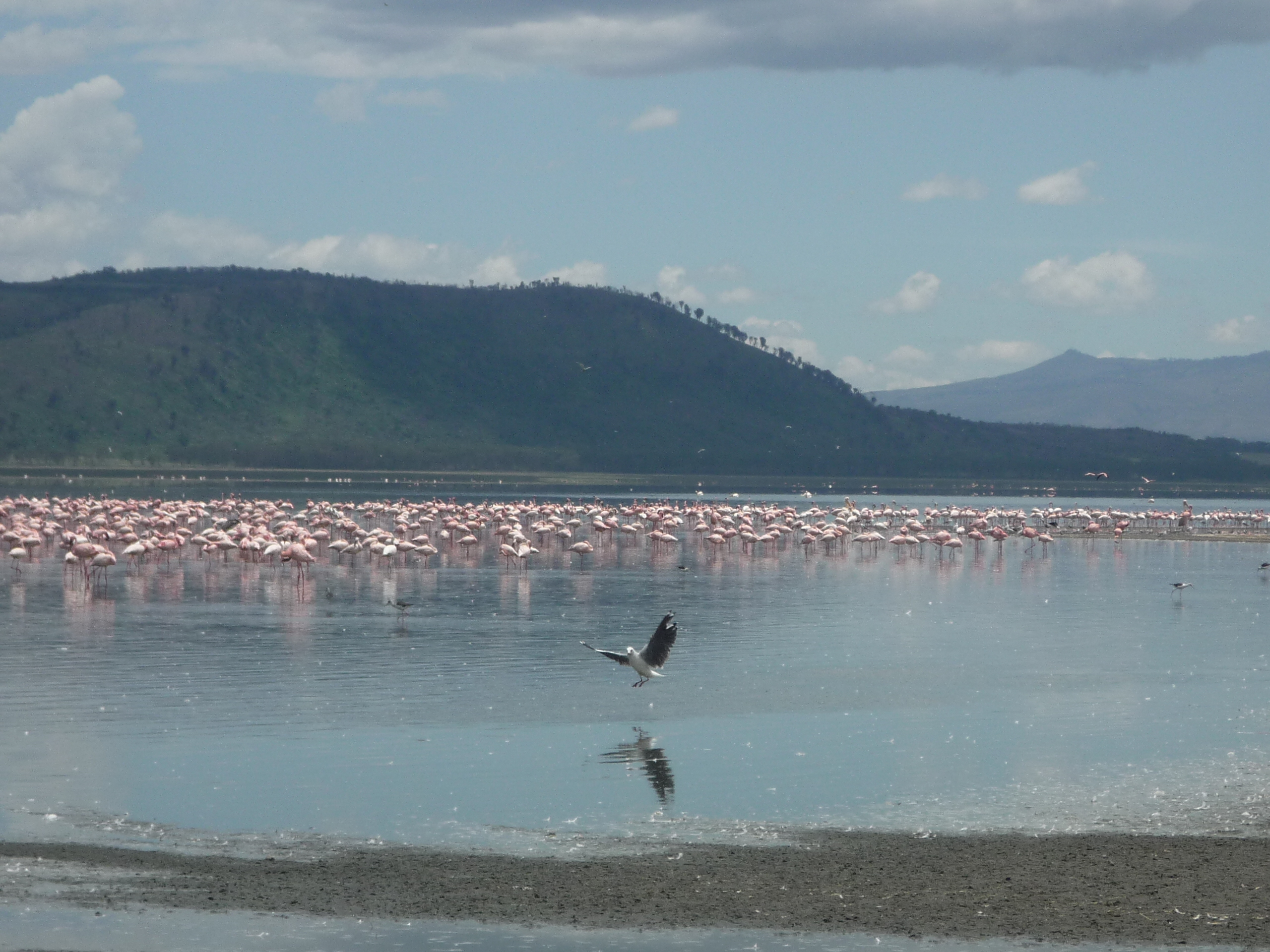 Lake Nakuru Wildlife - Lesser Flamingo